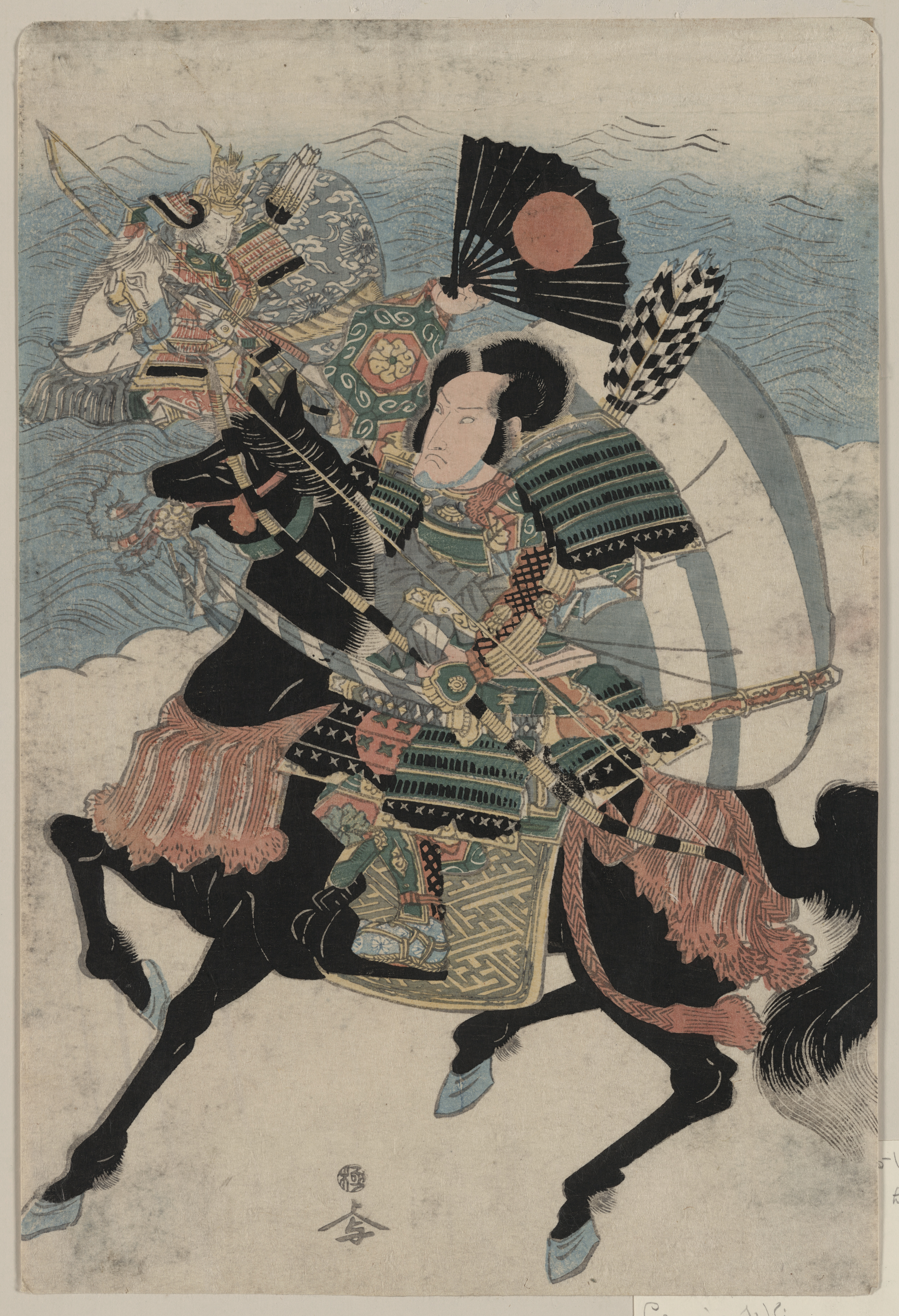 Title: The warriors Kumagai Naozane and Taira no Atsumori. Print shows two samurai warriors Kumagai Naozane and Taira no Atsumori on horseback with bow and arrows. 1 print : woodcut, color ; 37.5 x 25.4 cm.